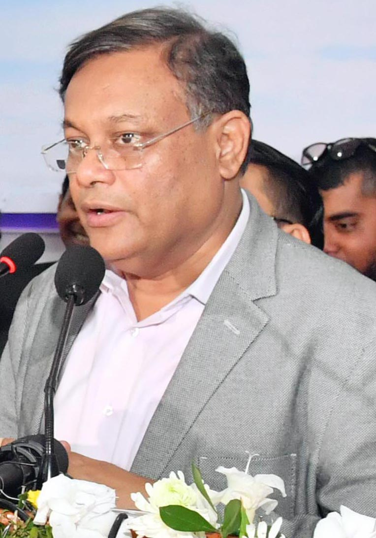 Muhammad Hasan Mahmud